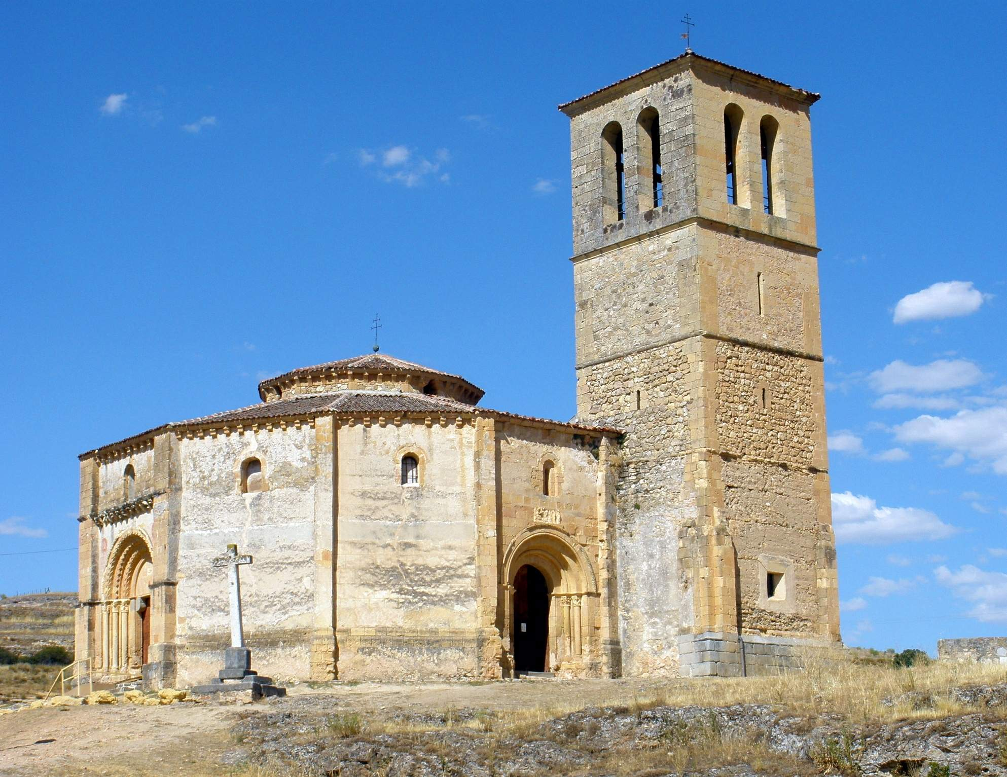 Church of the Vera Cruz (Zamarramala, Segovia)